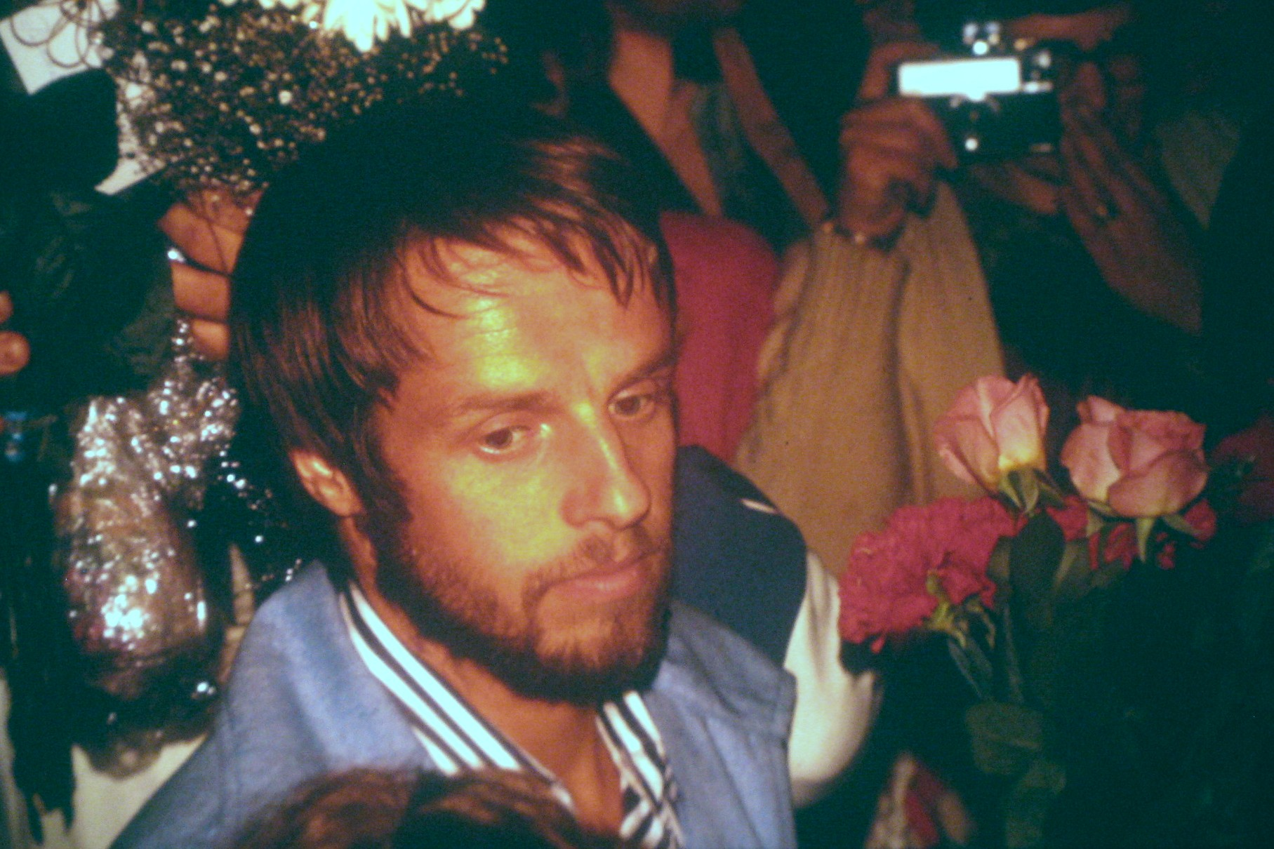 Lasse Virén in his "welcome back from Montréal" party in Myrskylä